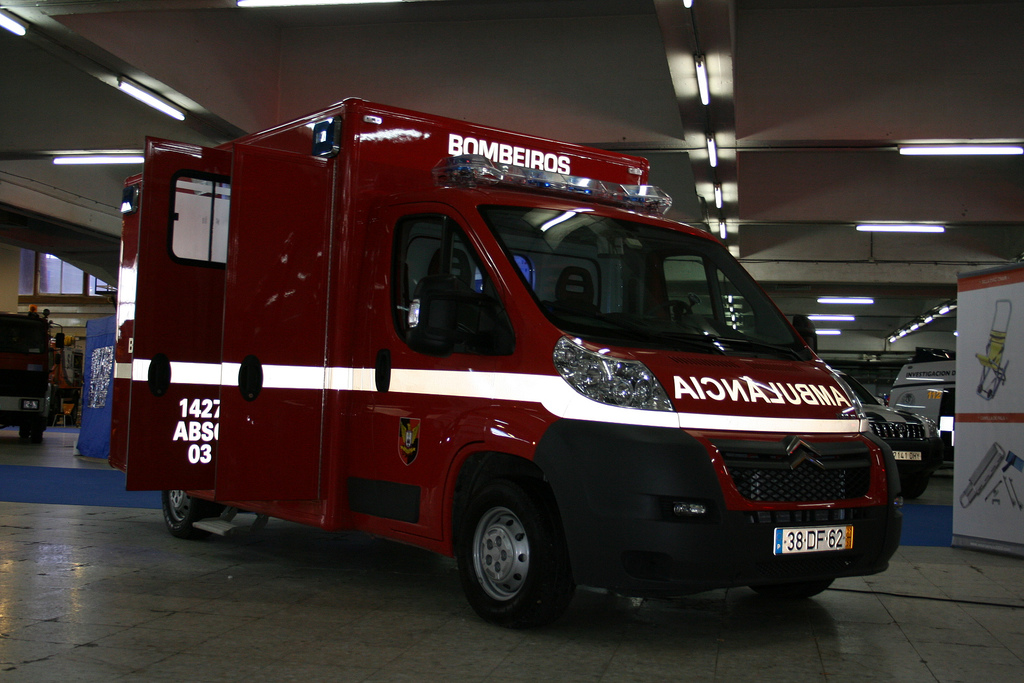 Citroen Jumper Ambulance of the firefighters in Portugal, with "AMBULANCIA" in mirror writing ("AICNALUBMA").